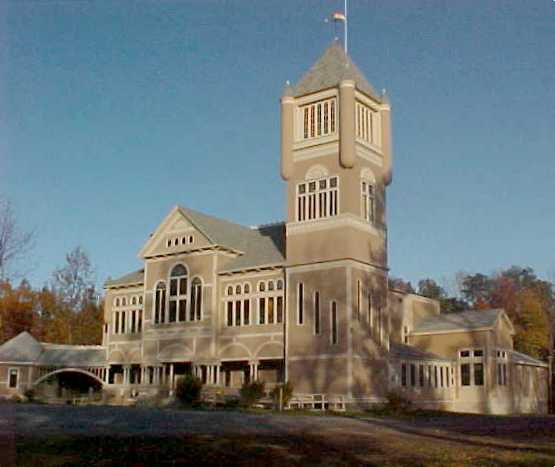 Picture of Cumston Hall in Monmouth, Maine ~ 2002.